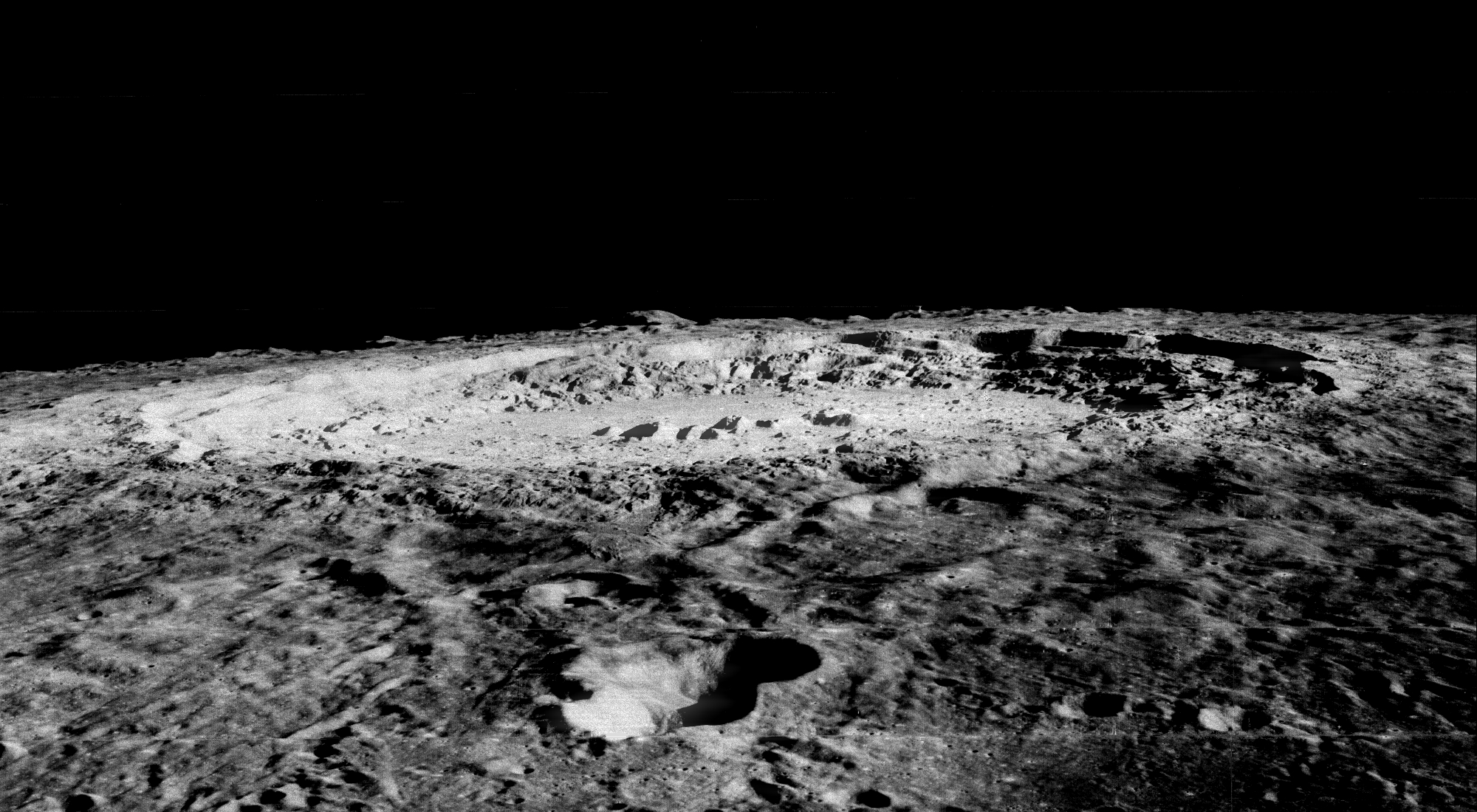 Limb of Copernicus Impact Crater